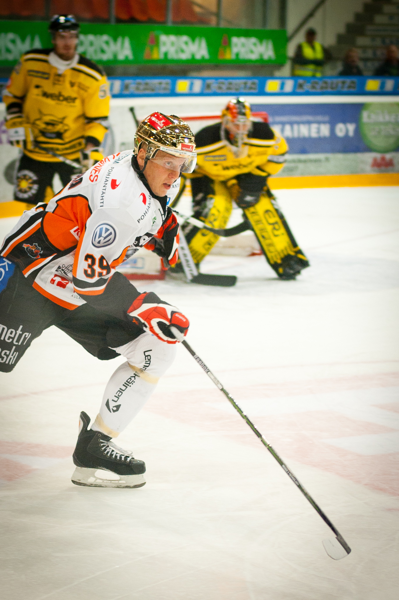 Finnish ice hockey player Ville Viitaluoma playing for HPK Hämeenlinna against SaiPa Lappeenranta in the Finnish SM-liiga.